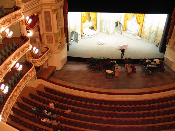 The Semperopera in Dresden